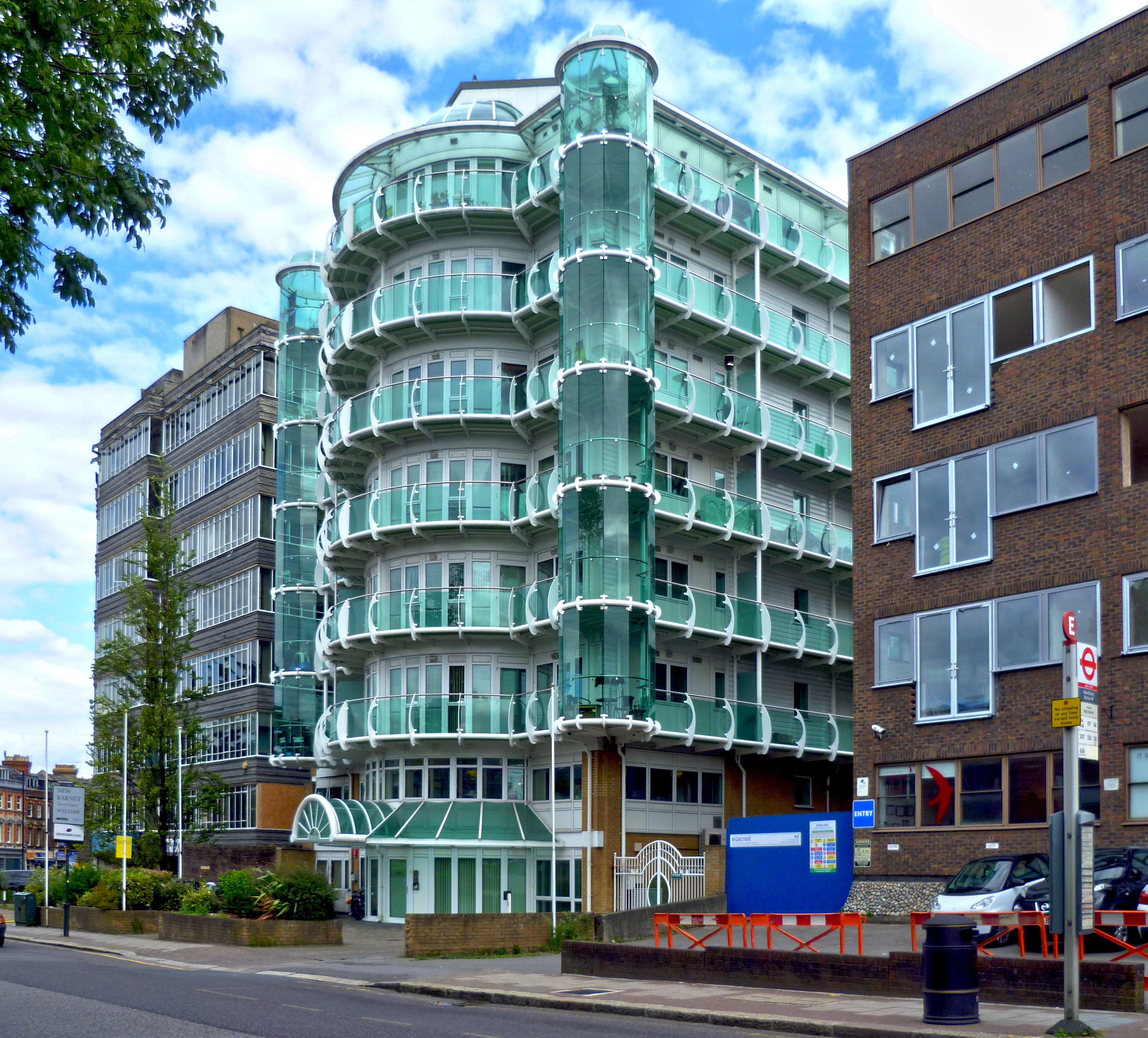 Comer House, Station Road, New Barnet